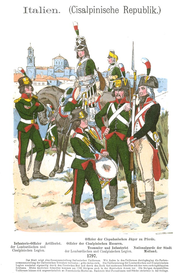 Italien. Cisalpinische Republik. 1797